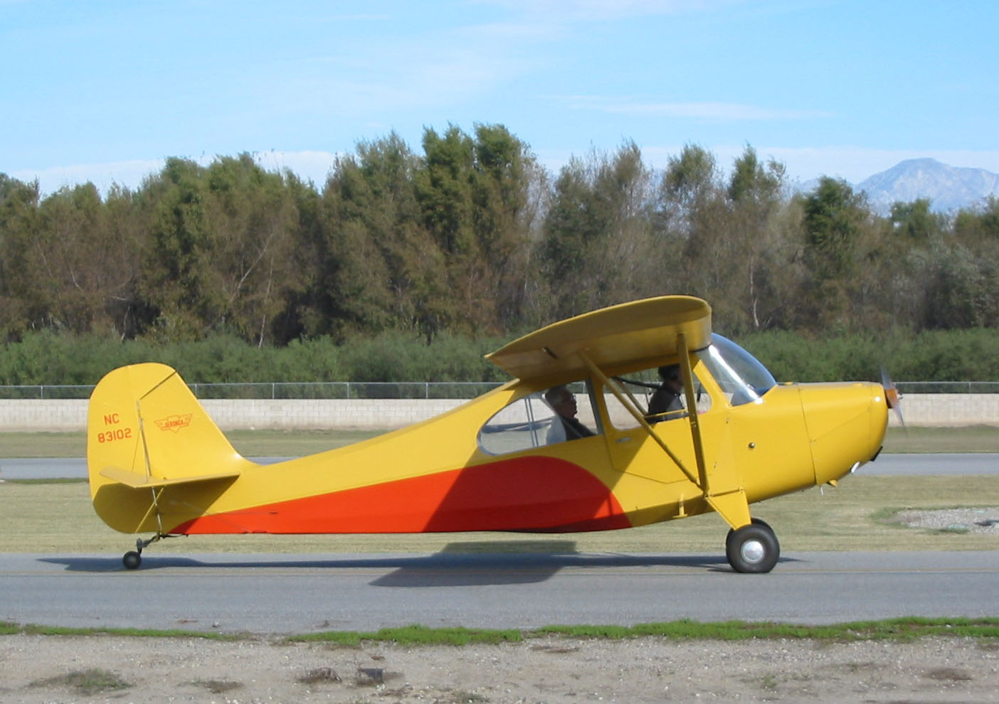 Aeronca 7AC Champ, taxiing at Corona Municipal Airport (AJO). Photo by Craig Kinzer.